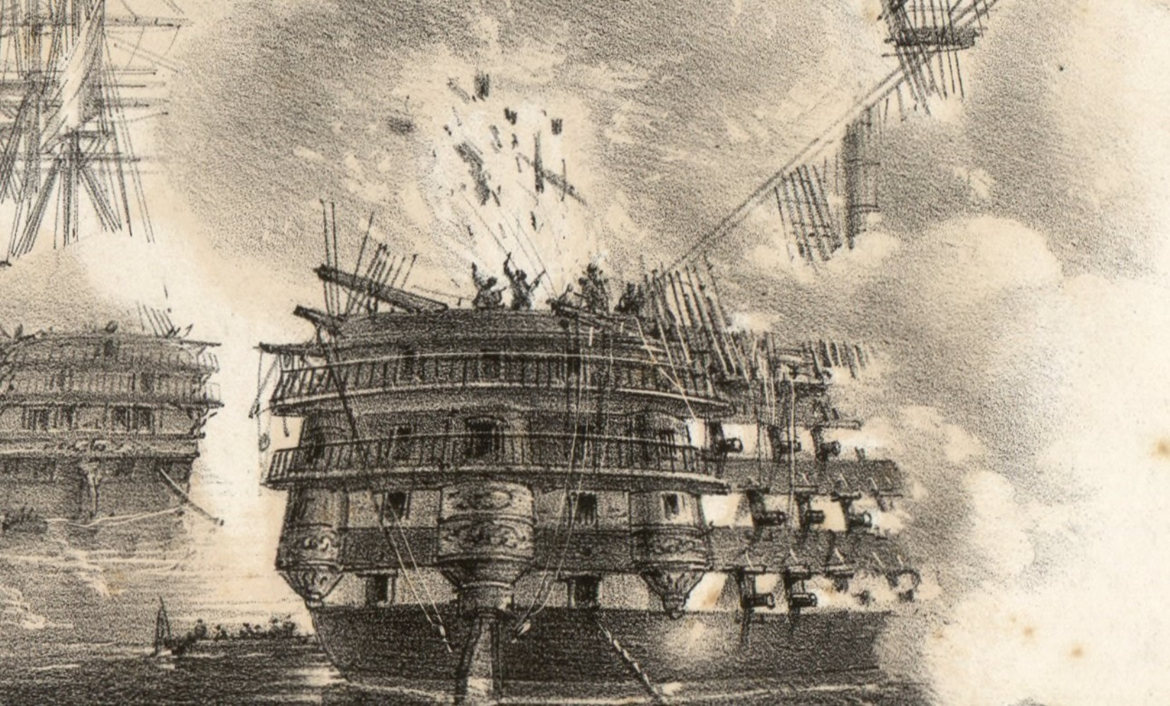 French flagship Ville de Paris hit by a Russian shell during the bombardment of Sevastopol. 1854. Crimean War. (Detail of a print named "La flotte des alliés attaque et démolit les forts extérieurs de Sébastopol (18 Octobre 1854)")